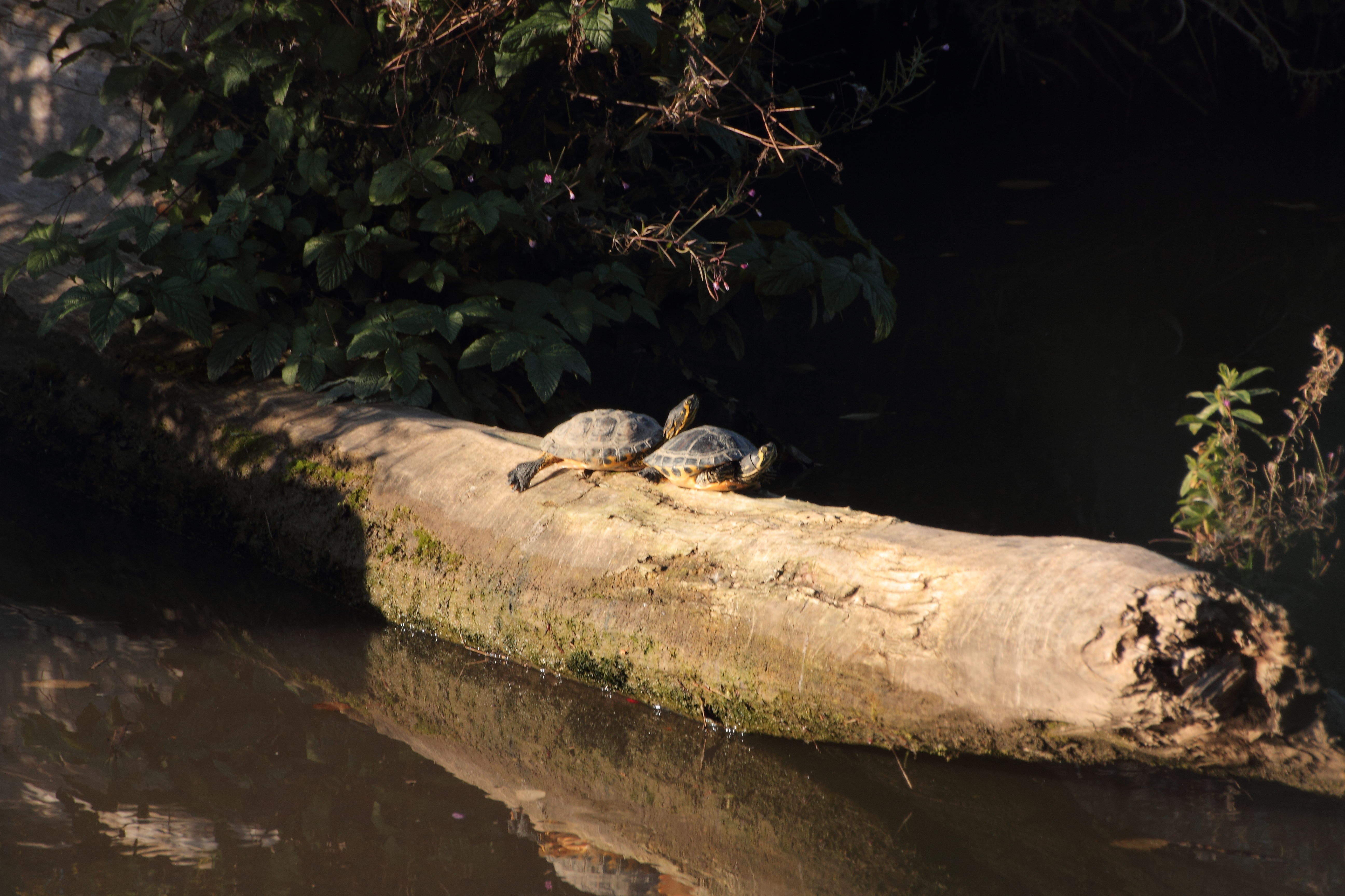 yellow-bellied slider (Trachemys scripta scripta) in the Neckar-river near Stuttgart, Germany